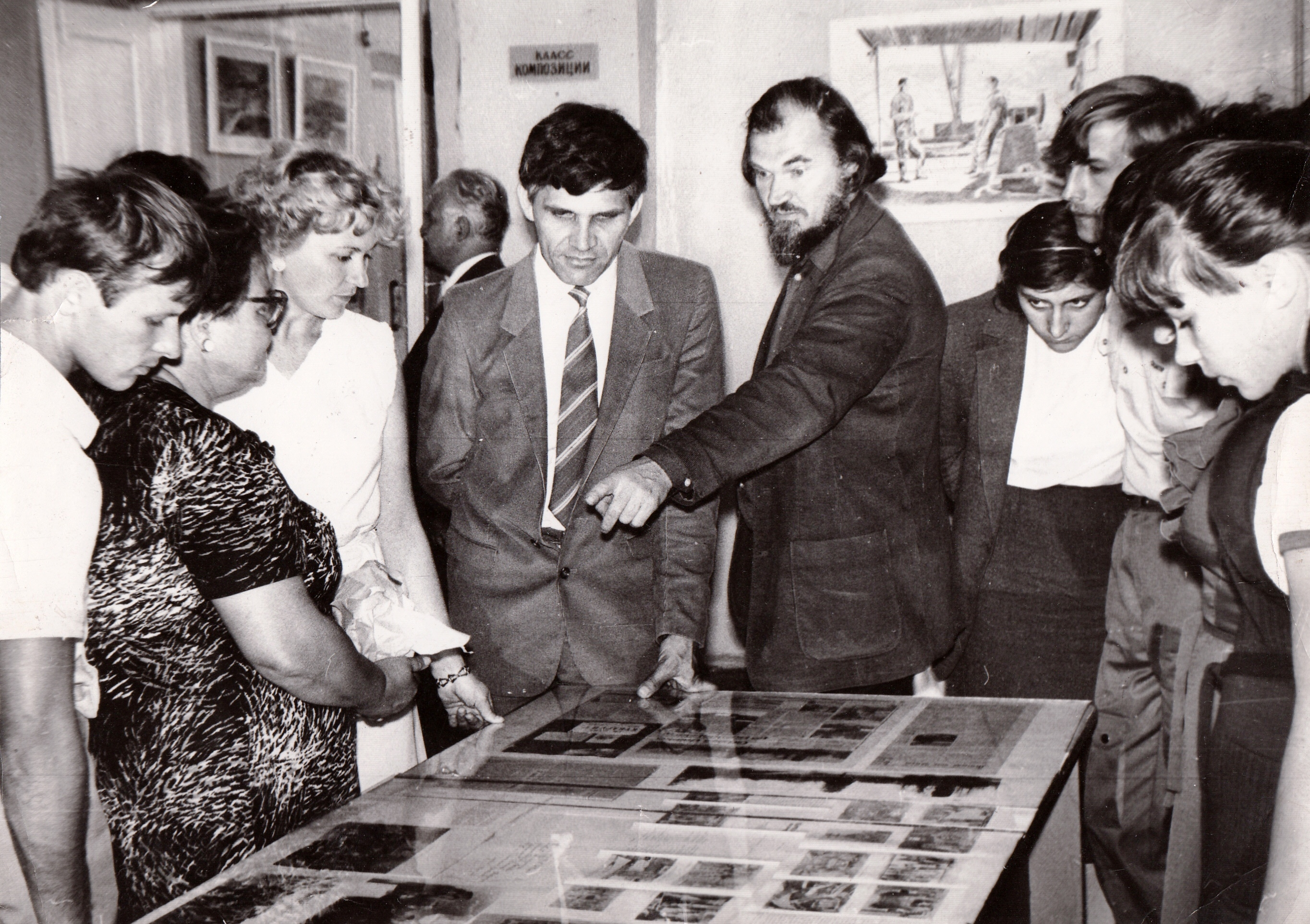 Kubarev Livny